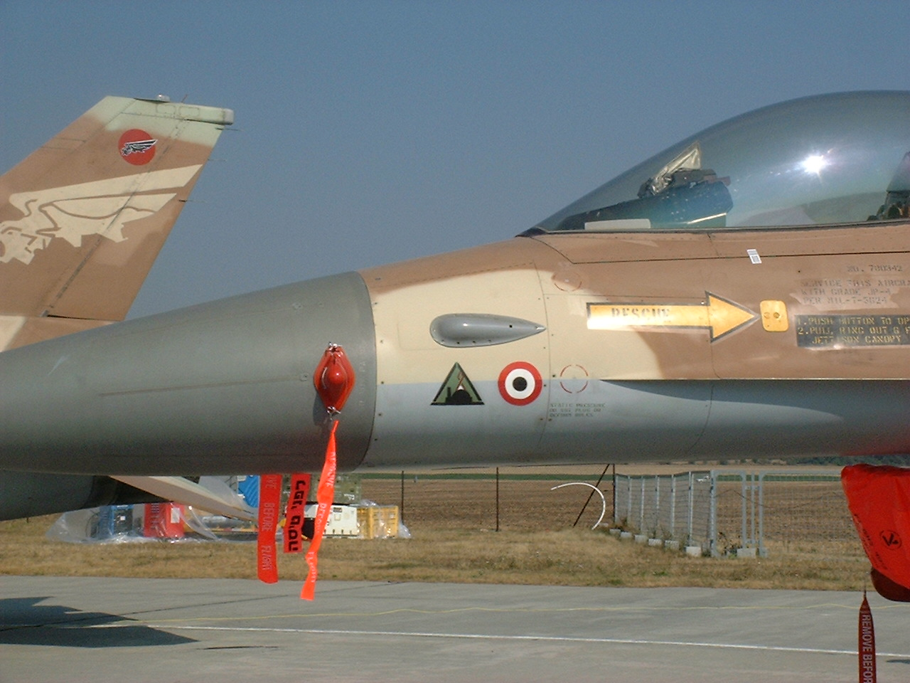 Nose of Israeli Air Force F-16A Netz '243' at CIAF 2004, Brno-Turany. Note the Syrian AF roundel 'killmark' and the insignia (based on the Iraqi roundel), showing that the aircraft took part in the Operation Opera, flown By Colonel Ilan Ramon. This was the eighth (last) aircraft to drop her bombs onto the reactor.